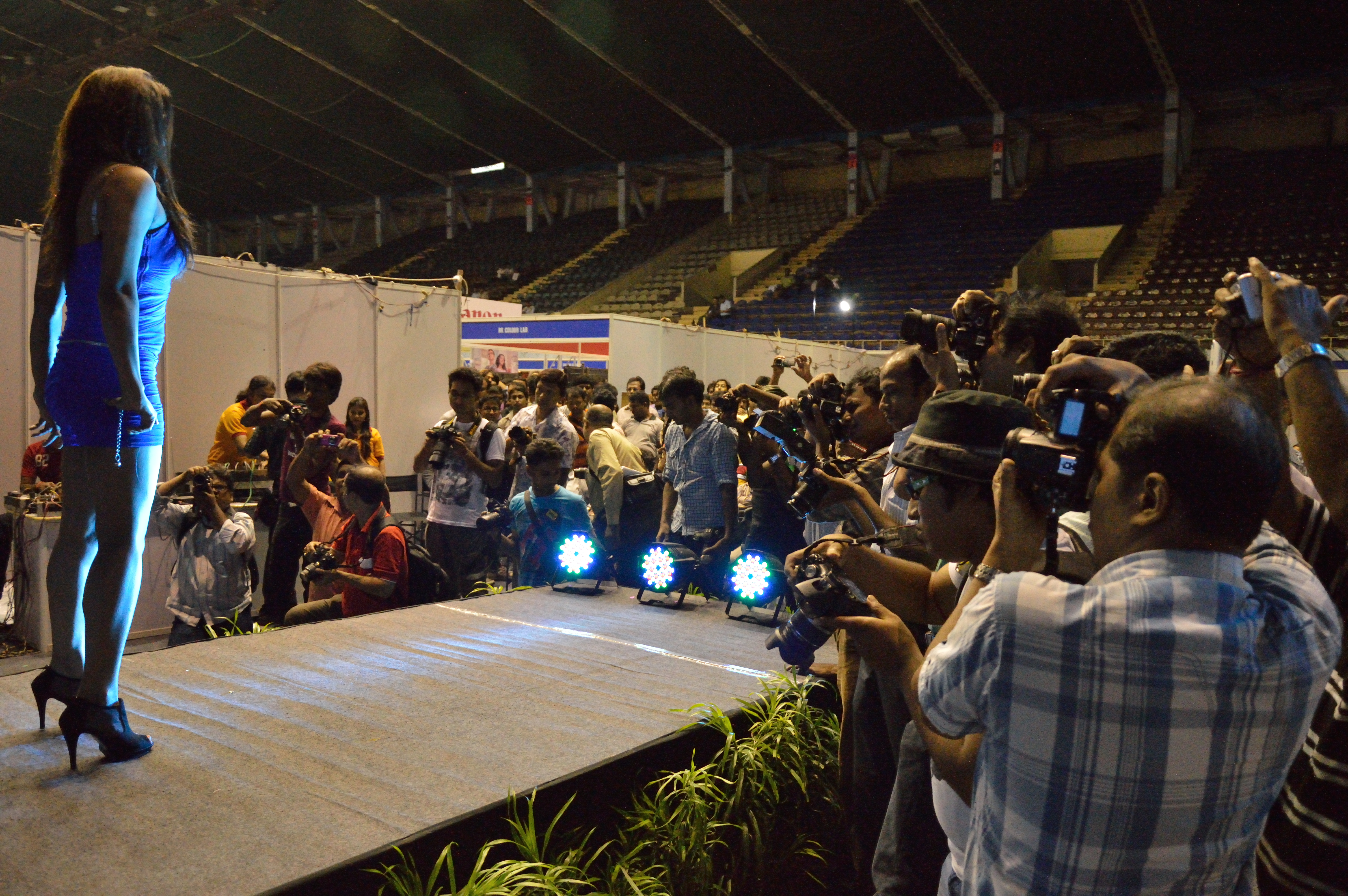 Photographed during the fashion photo shoot session that took place at the Photo-video Exhibition with Broadcasting and Filming materials that organised by the 'Image Craft' at the Netaji Indoor Stadium, kolkata from 24th to 26th August, 2014.